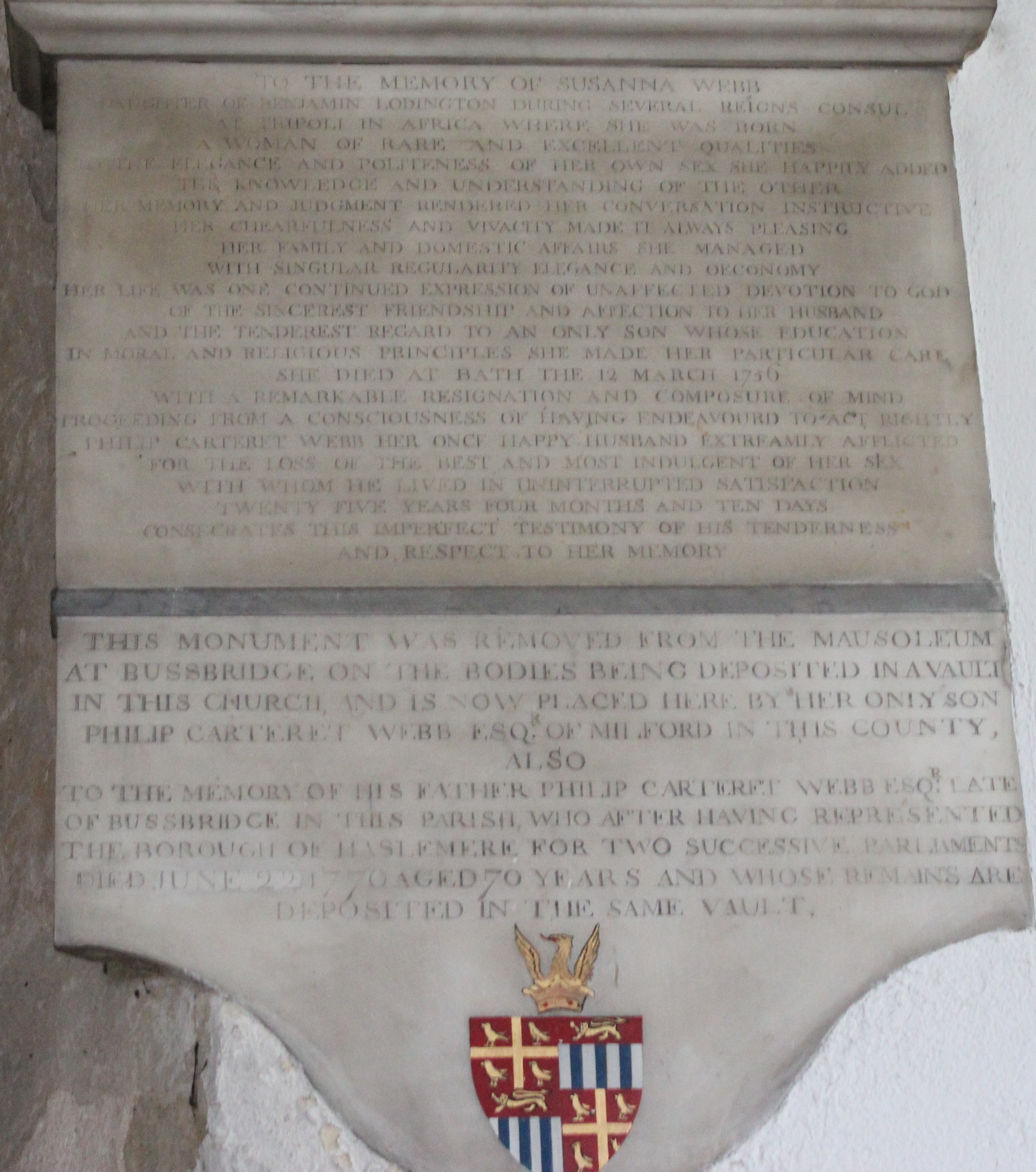 Philip Carteret Webb memorial, Godalming Church, Surrey